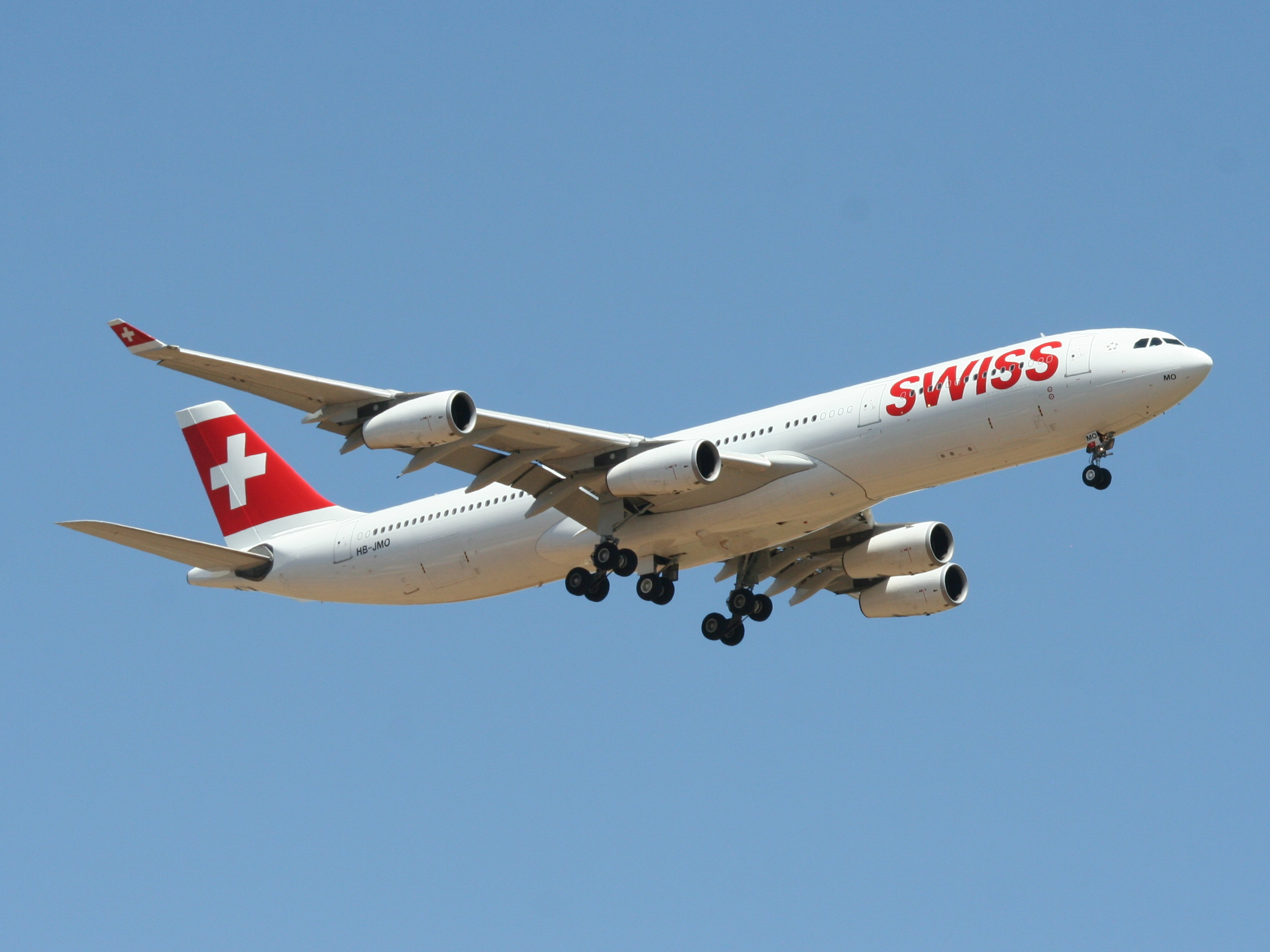 Landing at Ben Gurion International airport